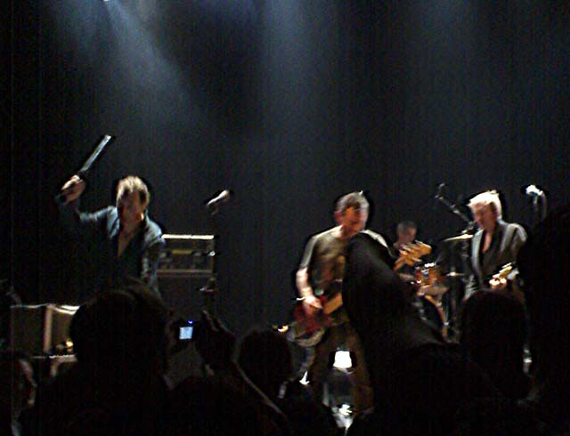 The English band Gang of Four playing in Bergen, Norway